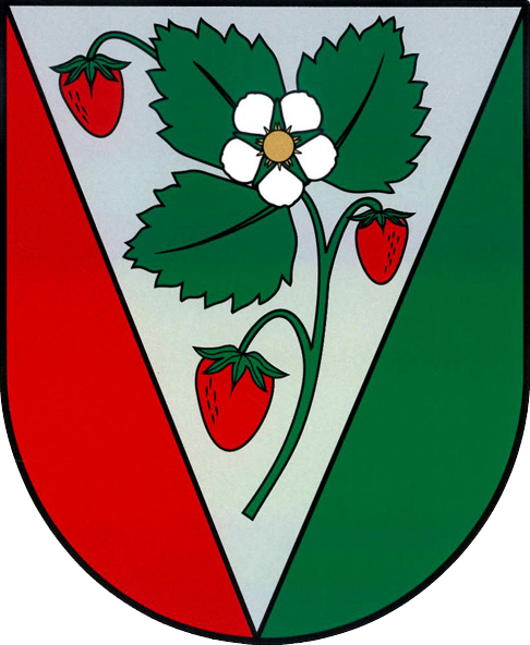 Coat of arms Sala Municipality, Latvia.